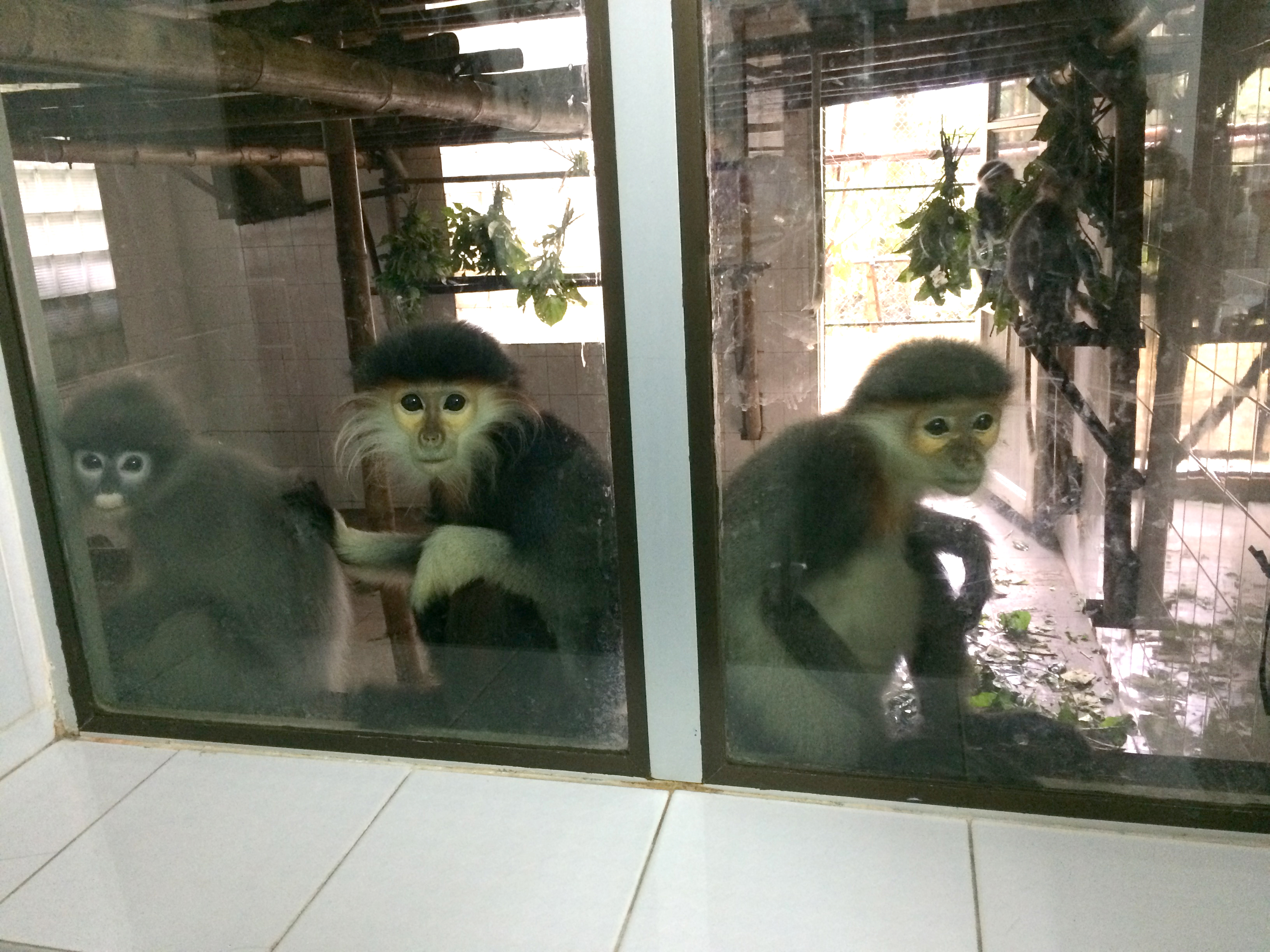 This image is related to a U.S. GAO report: Combating Wildlife Trafficking: Agencies Are Taking Action to Reduce Demand but Could Improve Collaboration in Southeast Asia